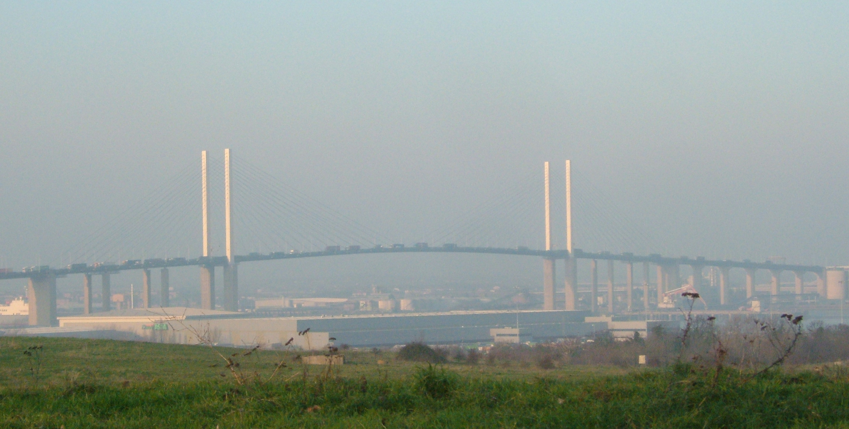 Dartford is a town in North Kent, England. Dartford crossing, the QE2 bridge over the Thames, taken from Horns Cross, with Crossways Business park in front and Purfleet behind. - OpenStreetMap(Info)